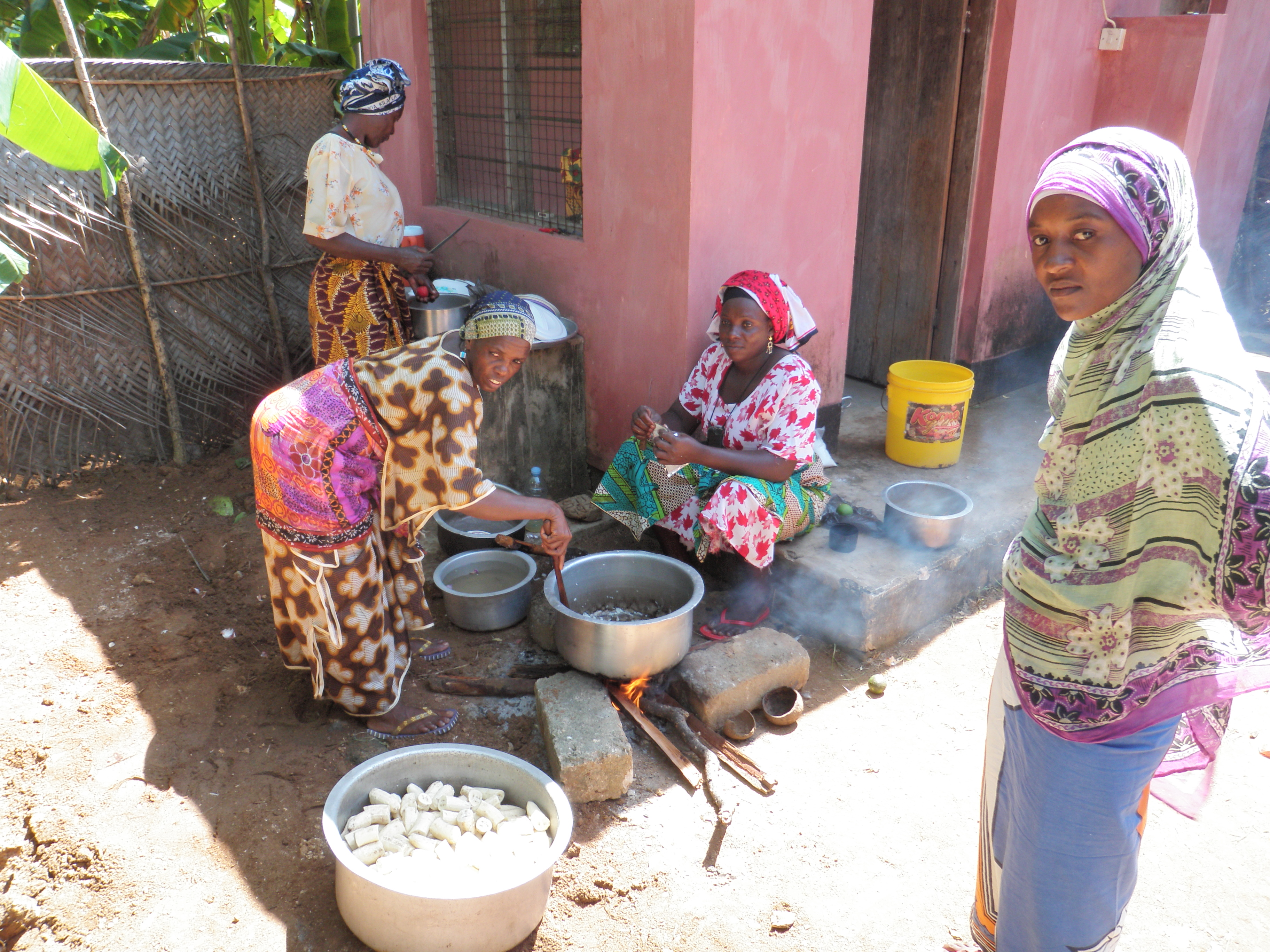 Kenyan women preparing maize that will be cooked in using an open fire stove